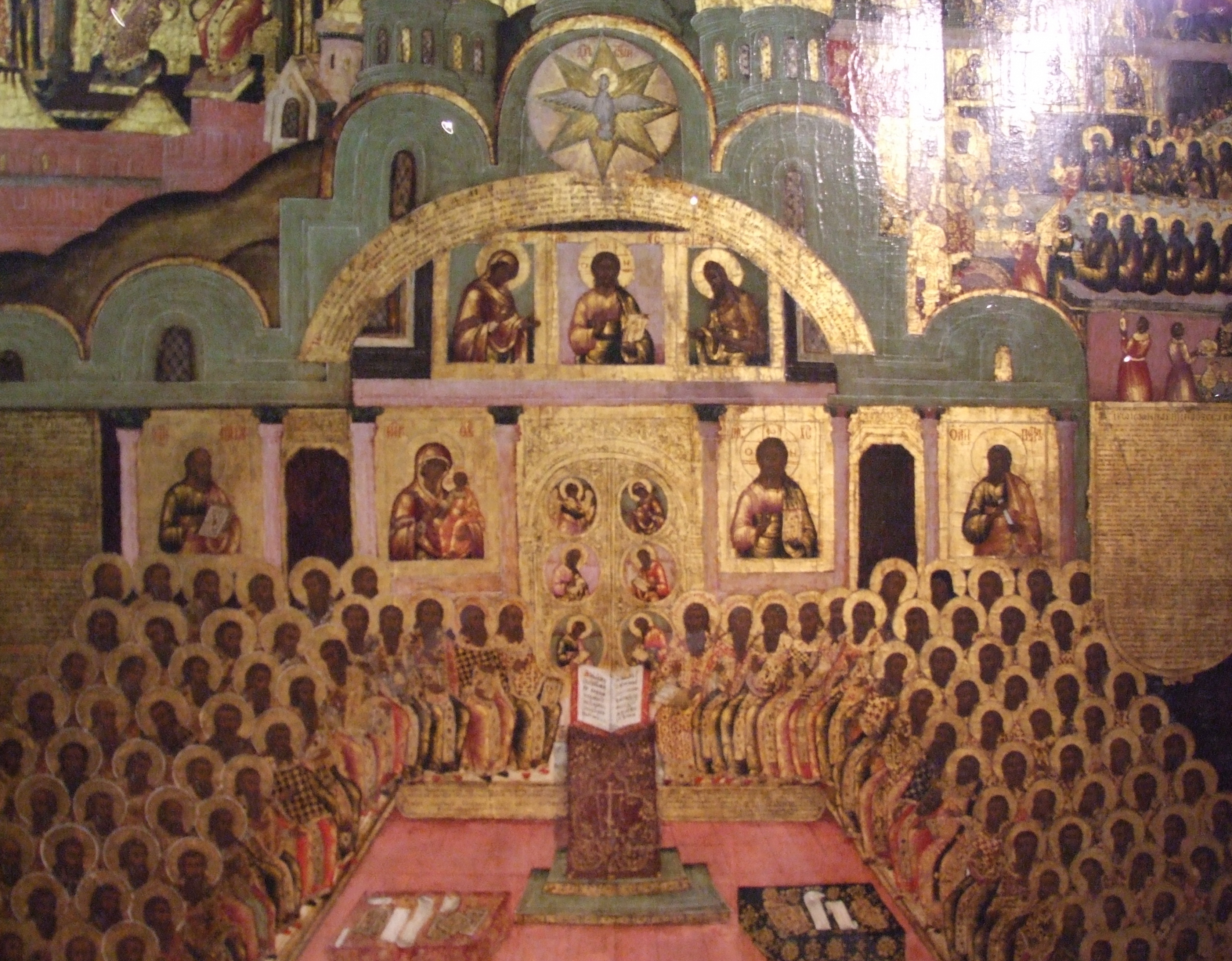 Seventh ecumenical council, Icon, 17th century, Novodevichy Convent, Moscow